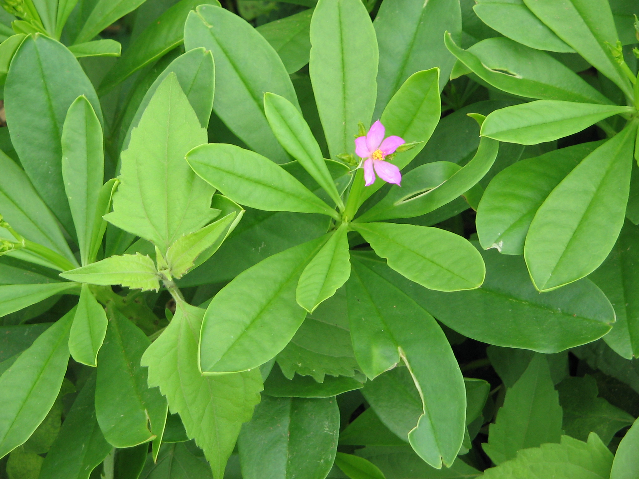 Talinum fruticosum